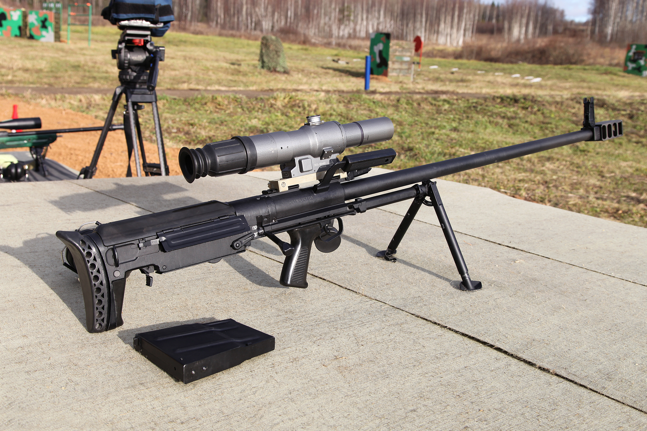 12.7mm sniper rifle ASVK